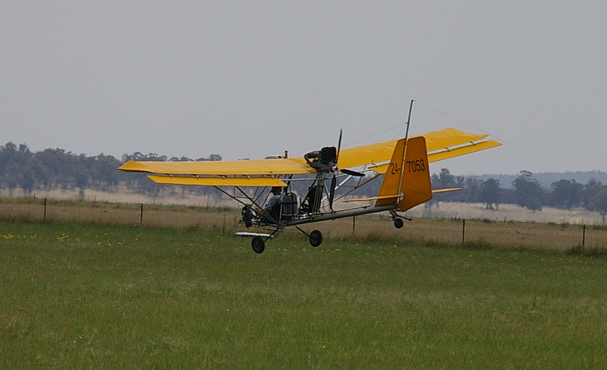 A Dragonfly can land and take off from a clear space of about 100m long